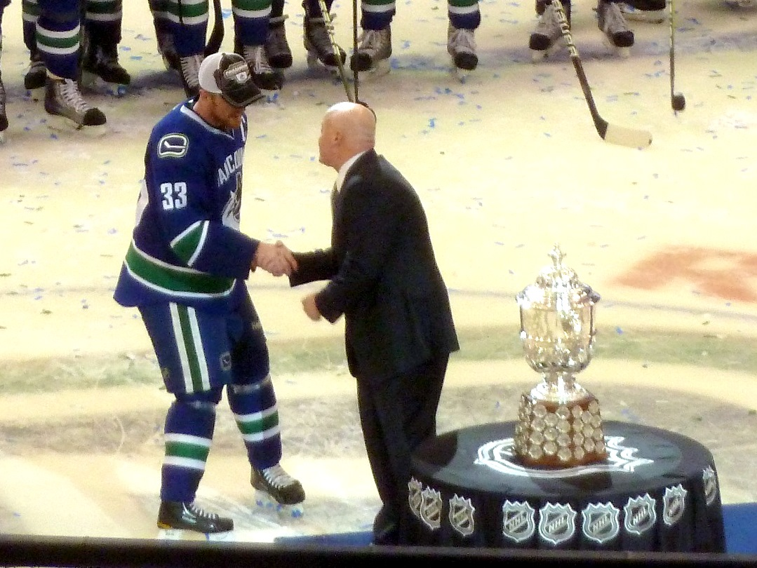 Vancouver Canucks captain Henrik Sedin accepts the Clarence Campbell Bowl on behalf of the team as the 2011 Western Conference playoff champions.